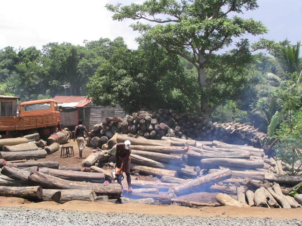 Illegally logged rosewood from Masoala and Marojejy in Antalaha, Madagascar